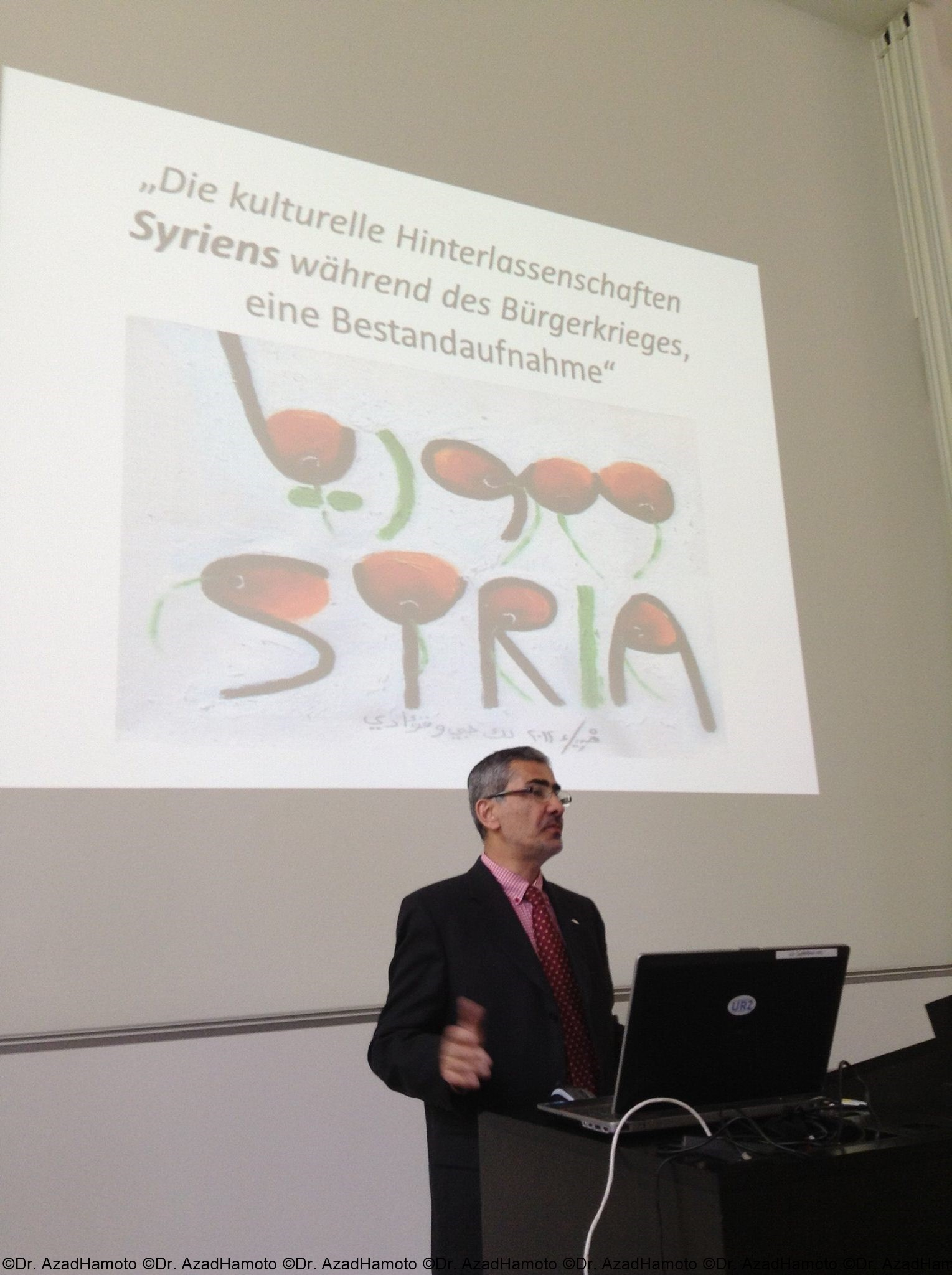 Azad Hamoto - Seminar in Germany